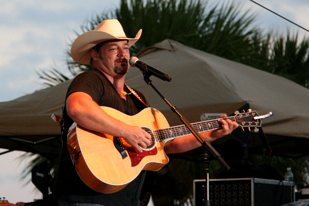 Performing at Jam for America on October 16, 2010 in Daytona Beach, FL.